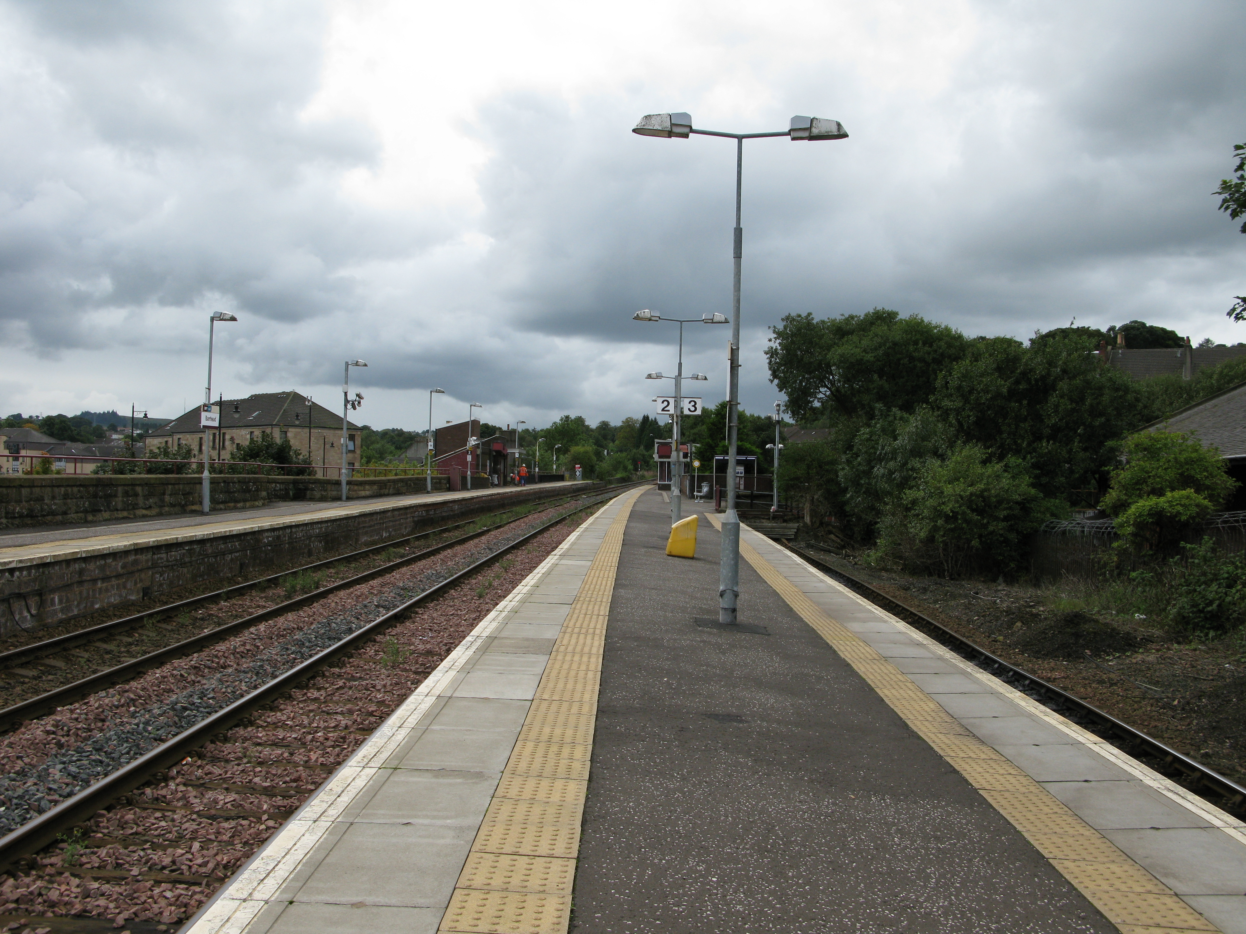 View from platform 2/3 at Barrhead railway station, looking towards Kilmarnock.